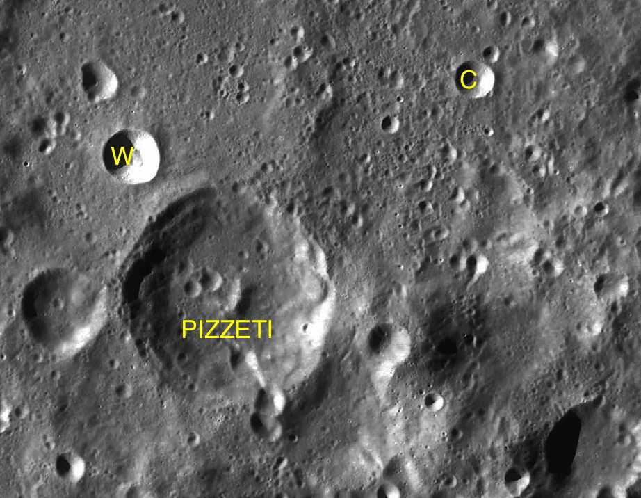 Part of the chart LAC-117 used for the presentation